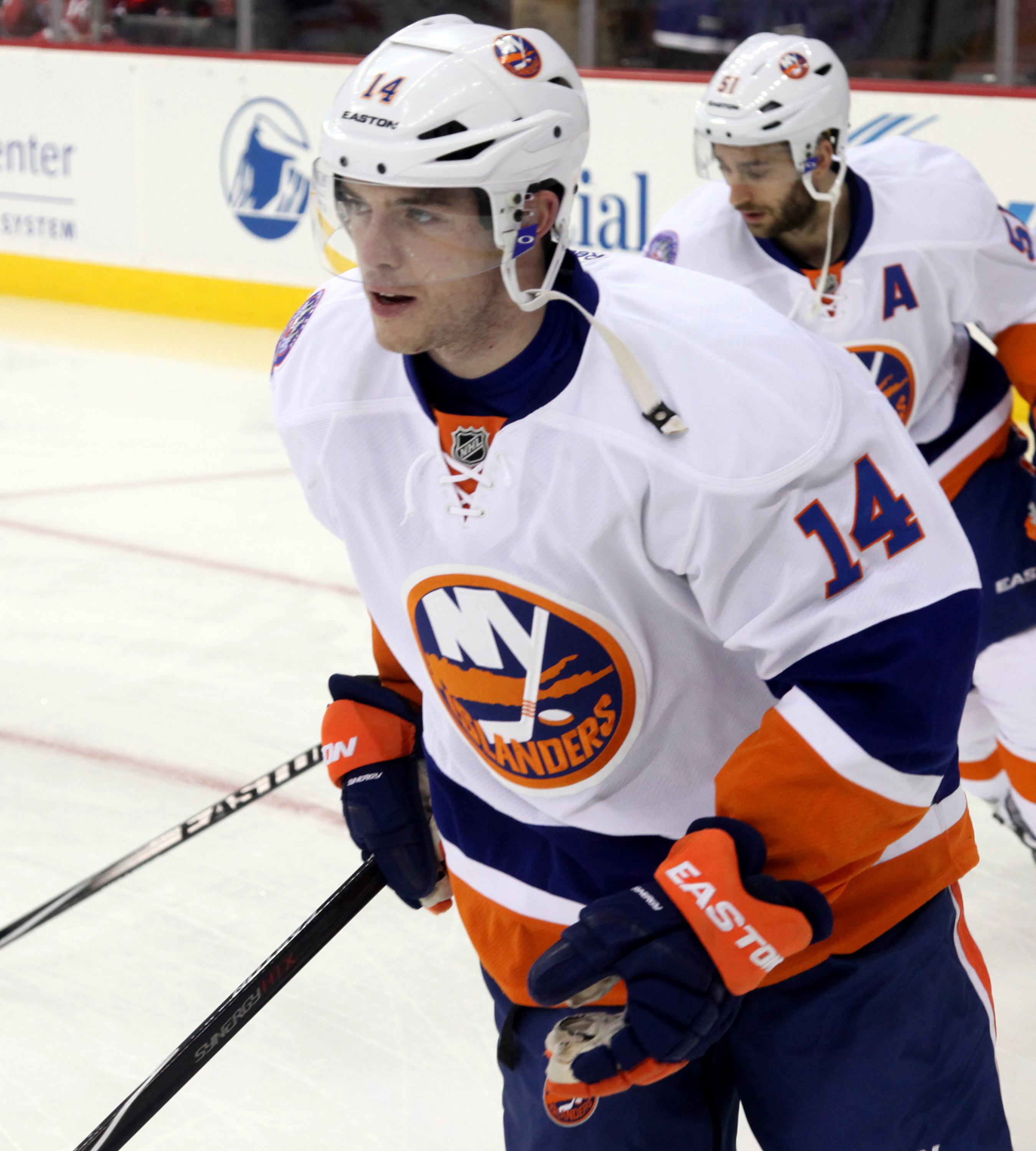 Hickey in January 2015.